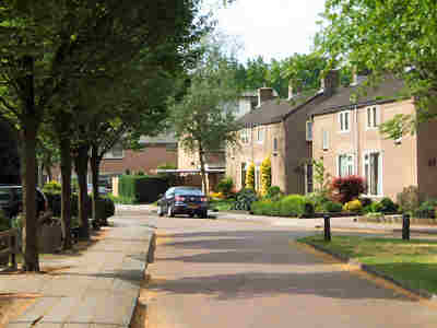 Smutsstraat, a street in Transvaalbuurt, Vaassen.